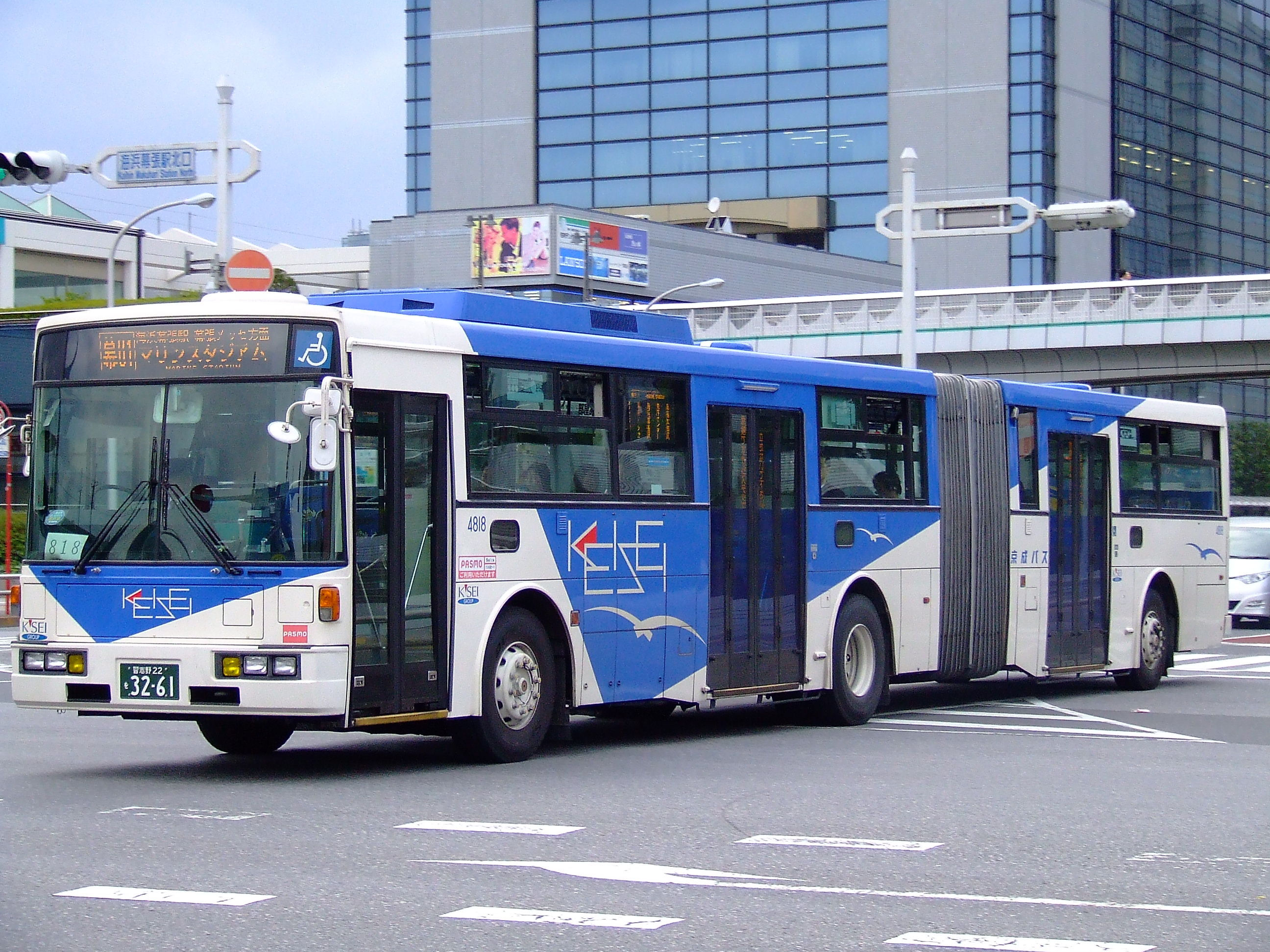 FHI 7E articulated bus (#4818) with Volvo B10MA or B10MC chassis in Japan. Keisei Bus operator.